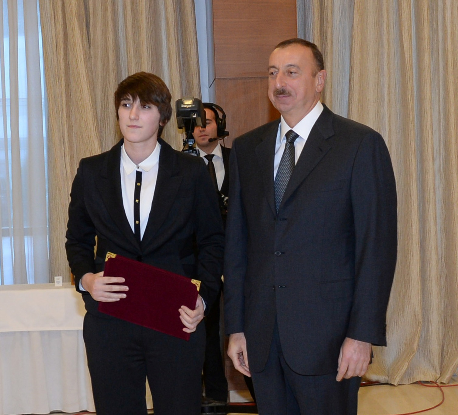 Ilham Aliyev with Farida Azizova. Ceremony dedicated to the sports results of 2013.